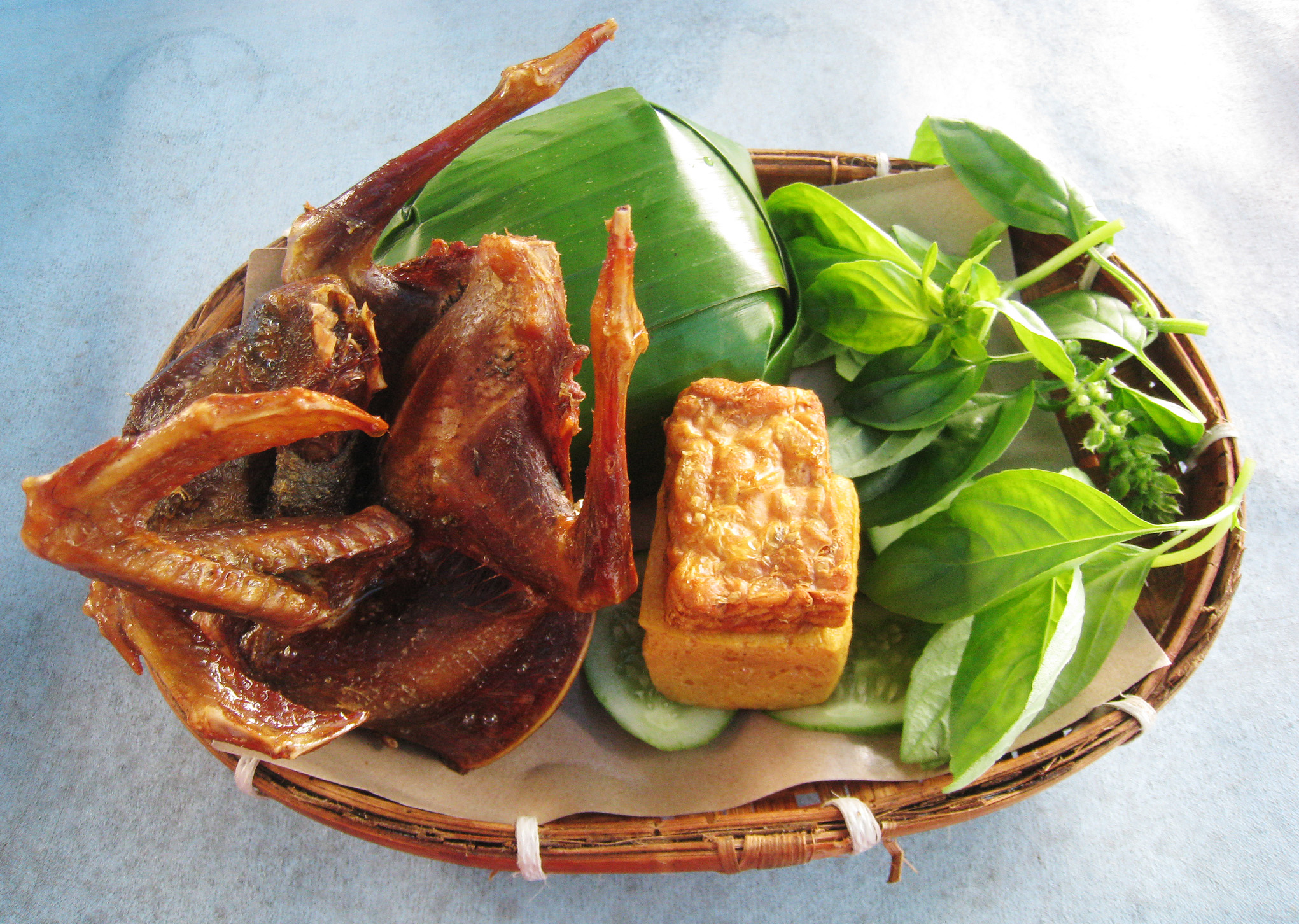 Nasi Timbel Dara Goreng (rice wrapped inside banana leaf with fried pigeon) with tofu and tempe, vegetables. Usually served with chili sambal. Sundanese cuisine, Bandung, West Java, Indonesia.